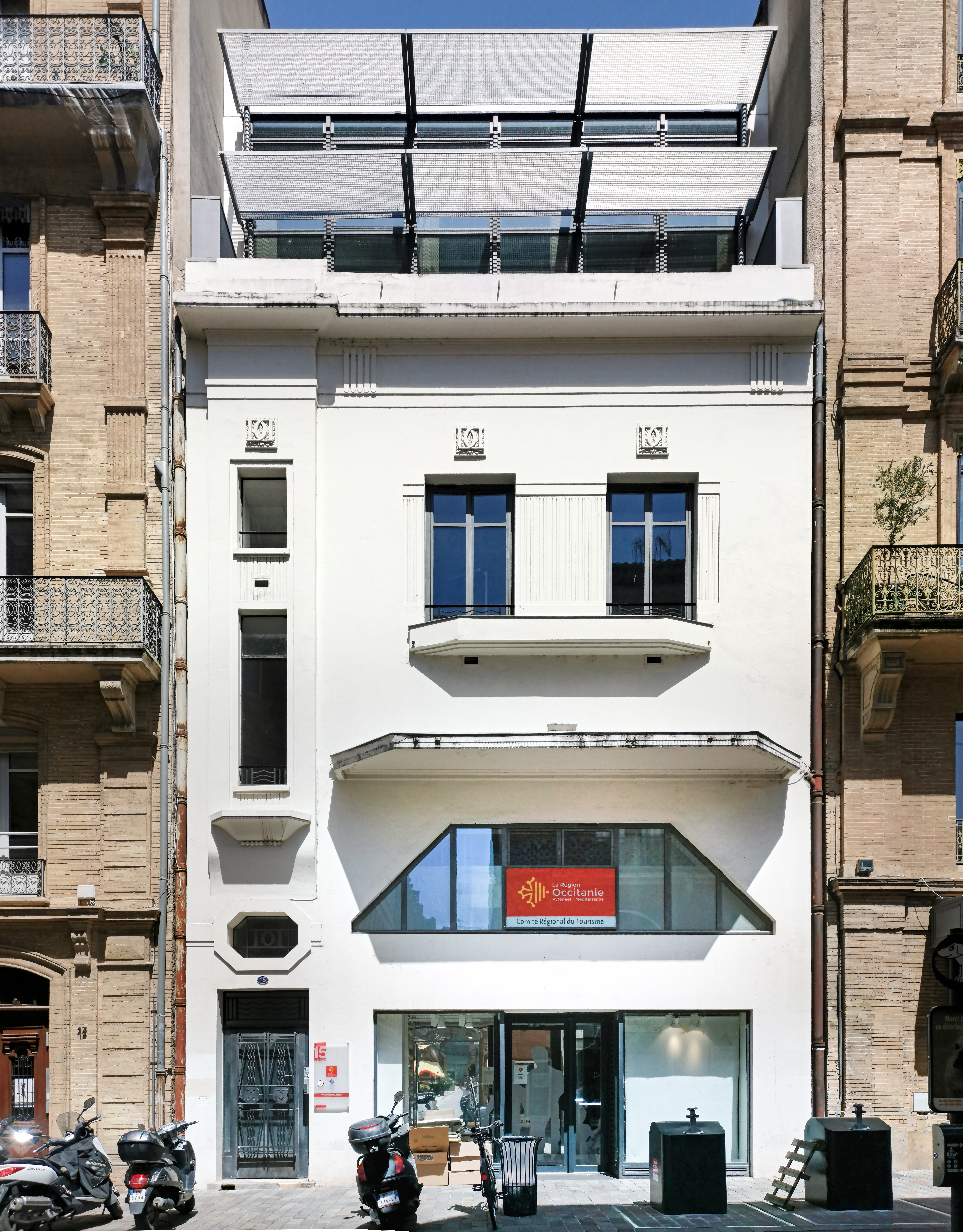 N°15 rue Rivals, building called La Depeche du Midi, Toulouse, France. Art-deco facade by Léon Jaussely, in 1932. Once the seat of the newspaper La Depeche du Midi. Currently the headquarters of the Regional Tourism Committee of Occitanie.